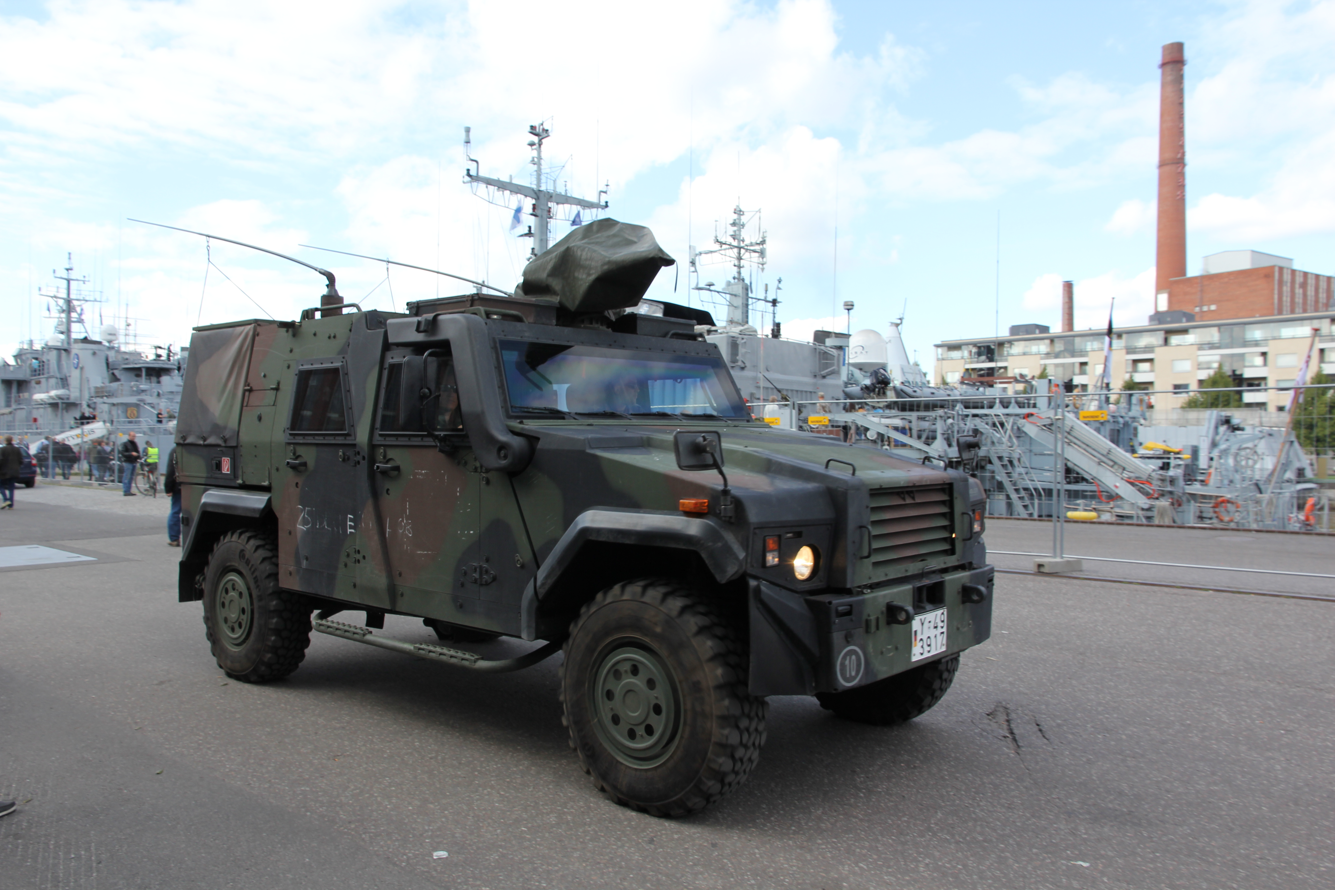 German Mowag Eagle IV photographed during the Northern Coasts 2014 exercise public pre sail event in Turku.